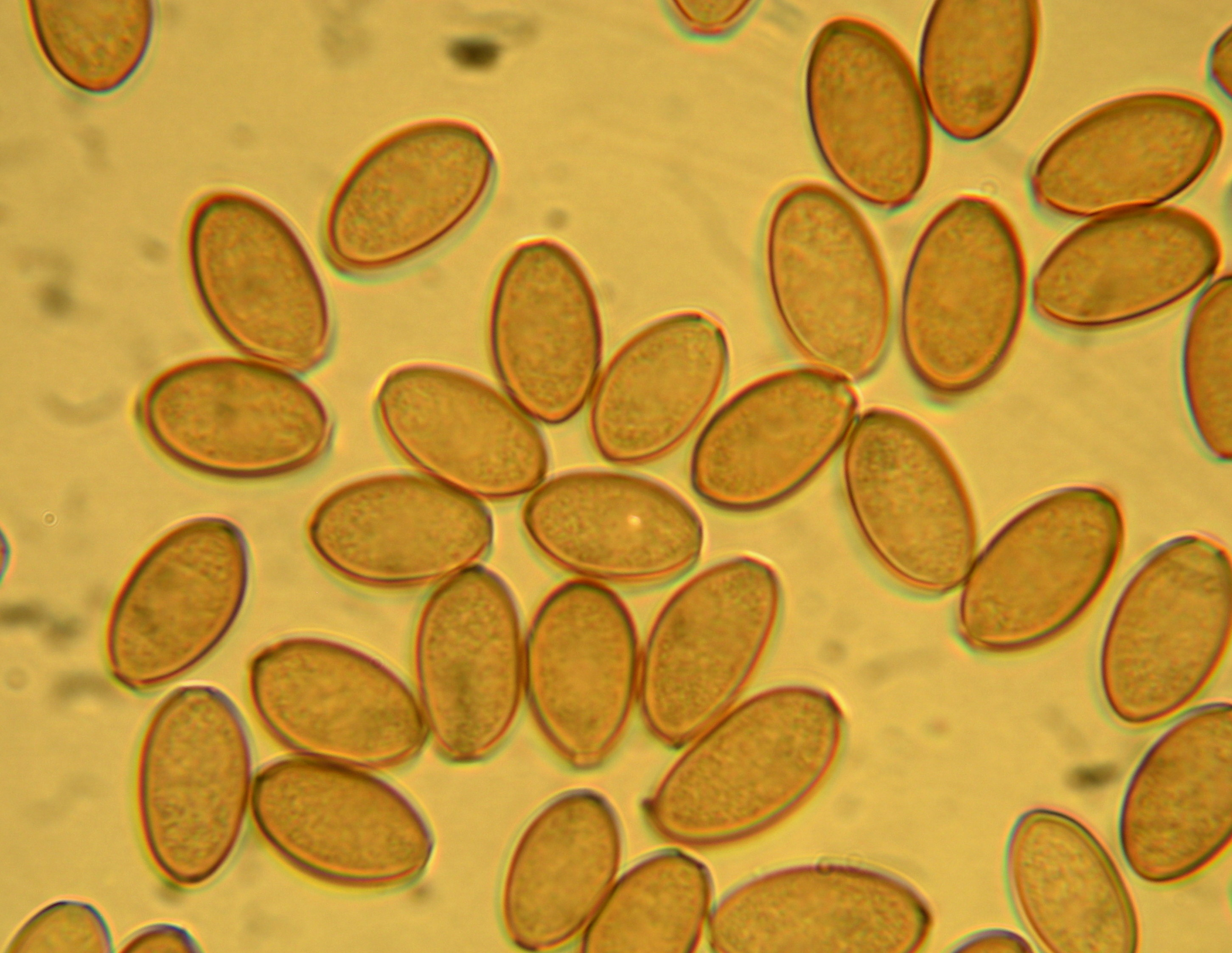 Agrocybe pediades (Fr.) Fayod Location: Manchester, California, USA Comments: These were growing on and around a cow patty. Caps up to 5.0cm across and brown spores. I was tempted to name these Agrocybe pediades var. platysperma based on the reference in MD because the spores appeared larger than that listed for A. pediades. They were ~13.0-14.0 X 8.0-8.9 microns and truncate(germ pore). However, it was not listed in the Name Index nor in Index Fungorum although the later does list an Agrocybe platysperma. Could not find any descriptions for it however.